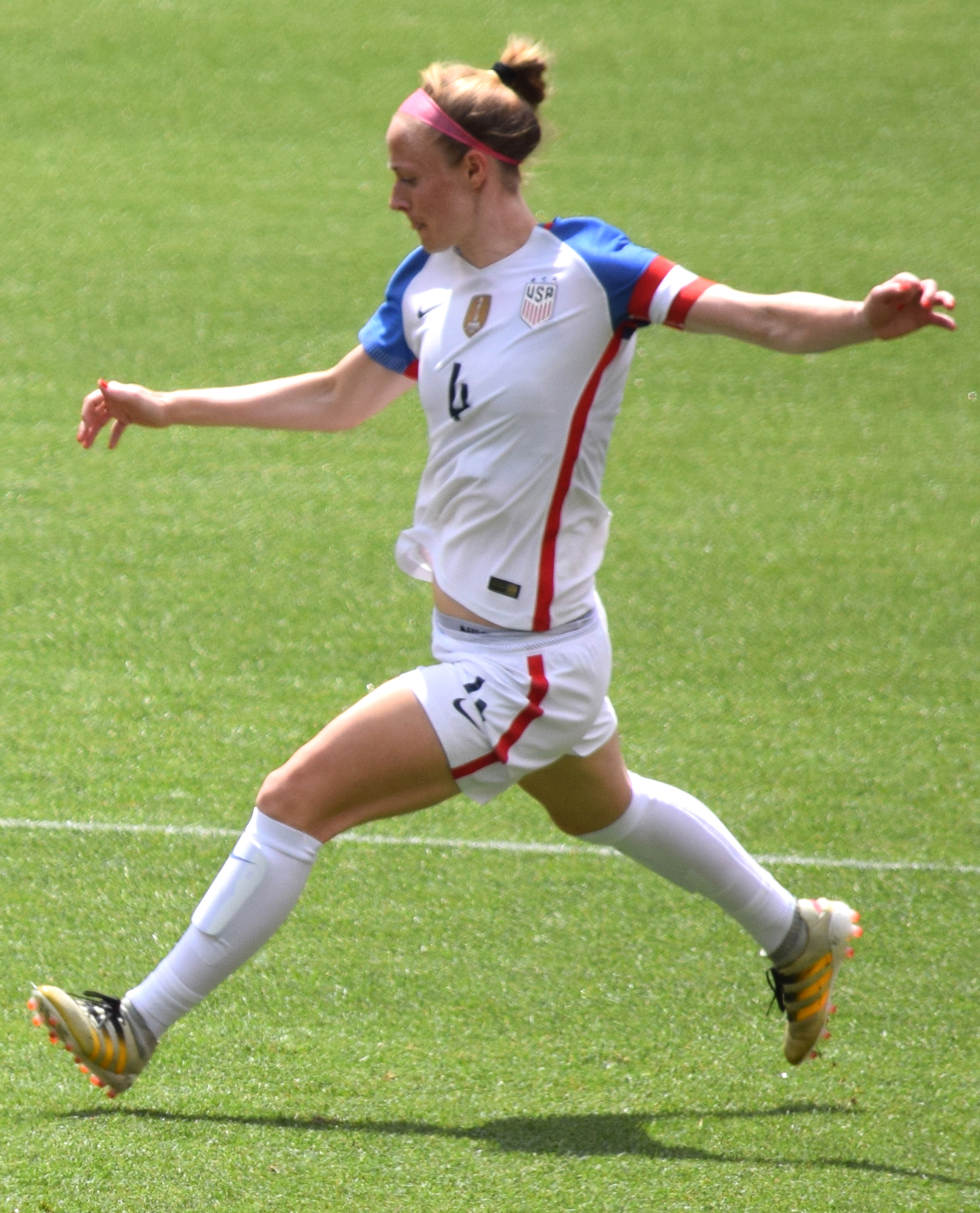 Sauerbrunn with the USWNT in Cleveland on June 5 in a match against Japan